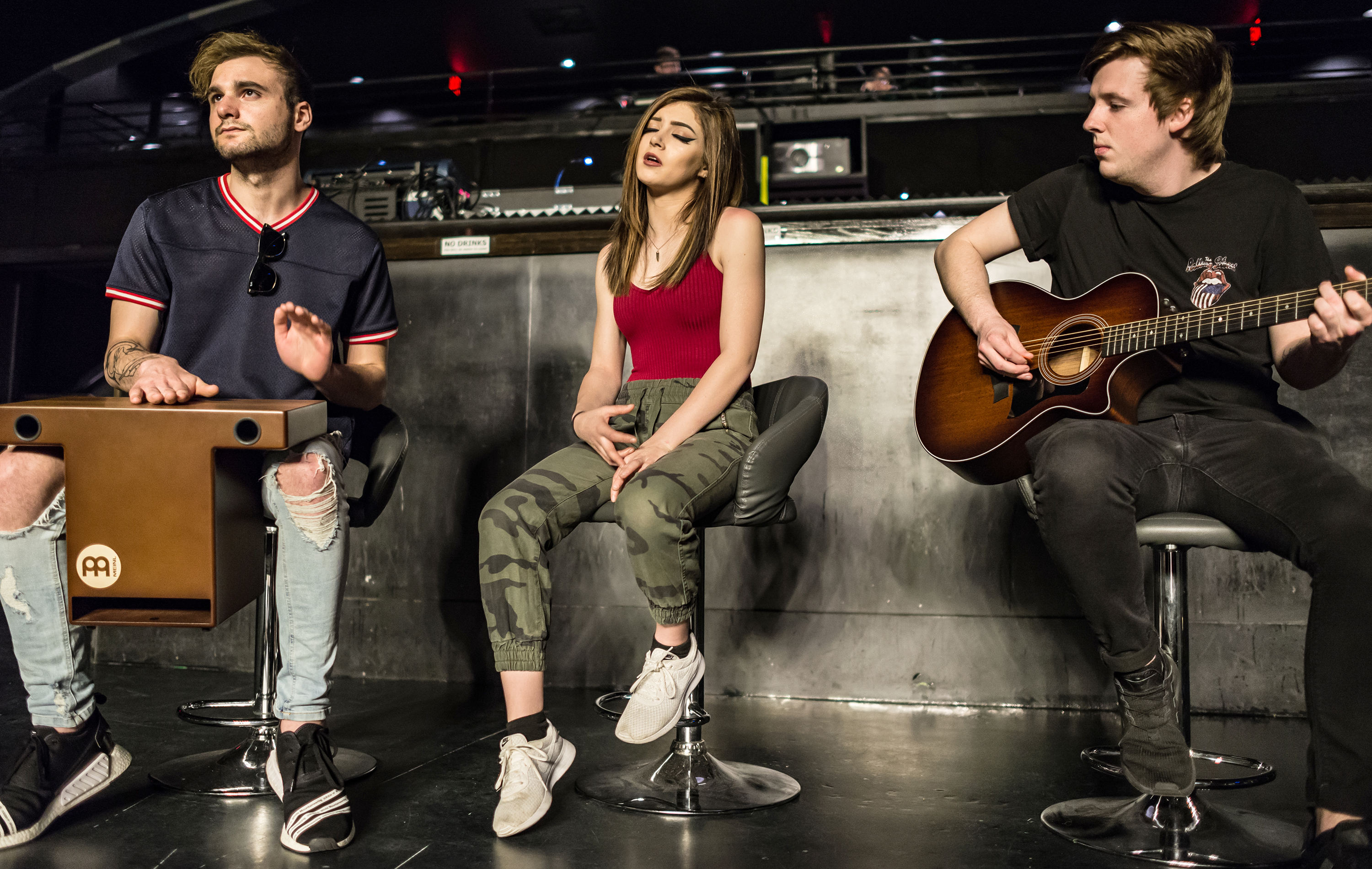 Against The Current performing live at the Teragram Ballroom in downtown Los Angeles, California, on Friday, April 21, 2017. ATC opened for State Champs.